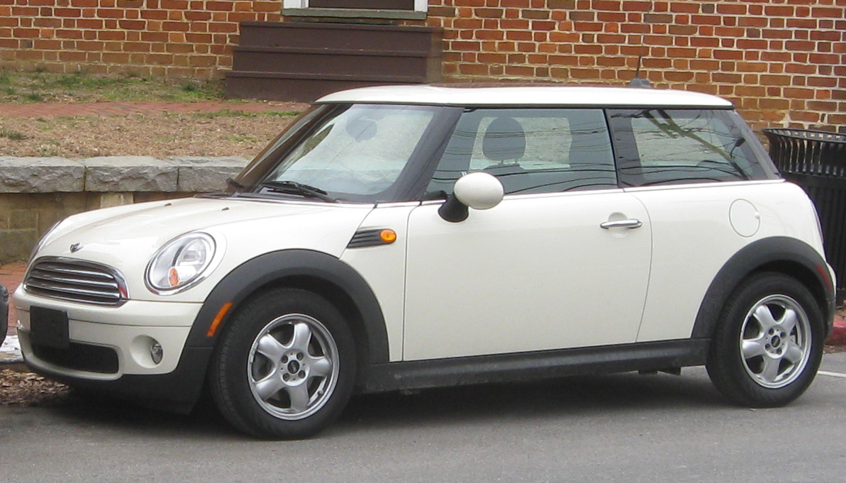 2007-2010 Mini Cooper photographed in Annapolis, Maryland, USA.